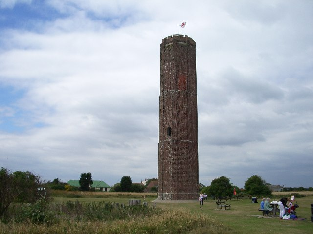 Naze Tower, Walton-on-the-Naze. This distinctive landmark was built in 1721 by Trinity House as a beacon for shipping. It has been restored and now houses a cafe and art gallery.